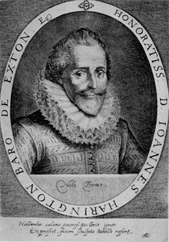 Sir John Harington (1561-1612) from Project Gutenberg eText 13403 English Travellers of the Renaissance, by Clare Howard